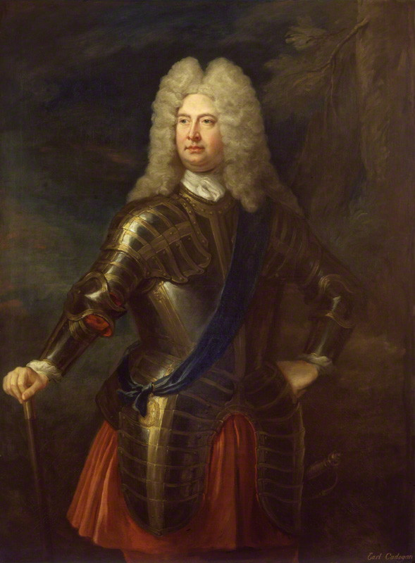 He was Marlborough's Quartermaster General and de facto chief of staff.